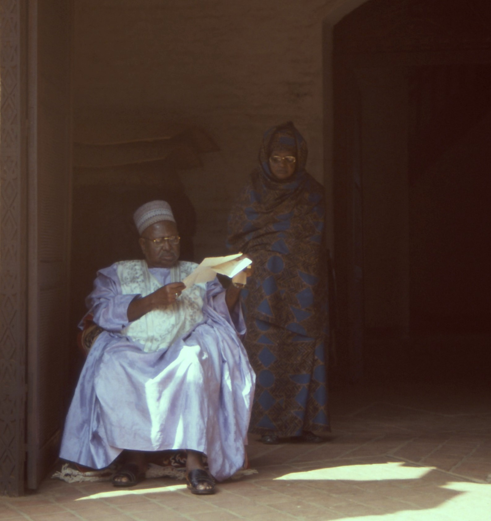 Sultan Ibrahim Mbombo Njoya at the Palace of Foumban, Cameroon, 1991